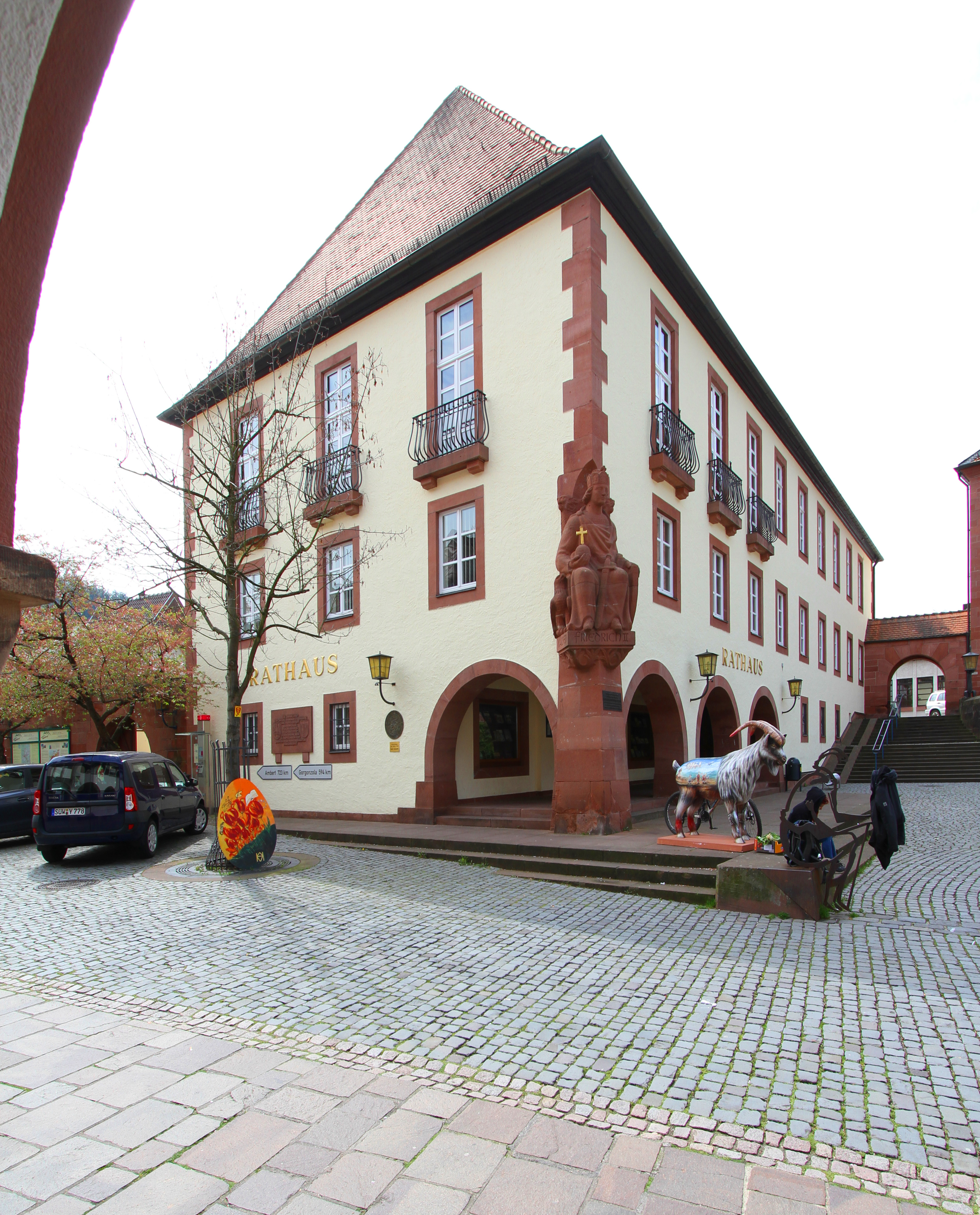 Town hall in Annweiler.